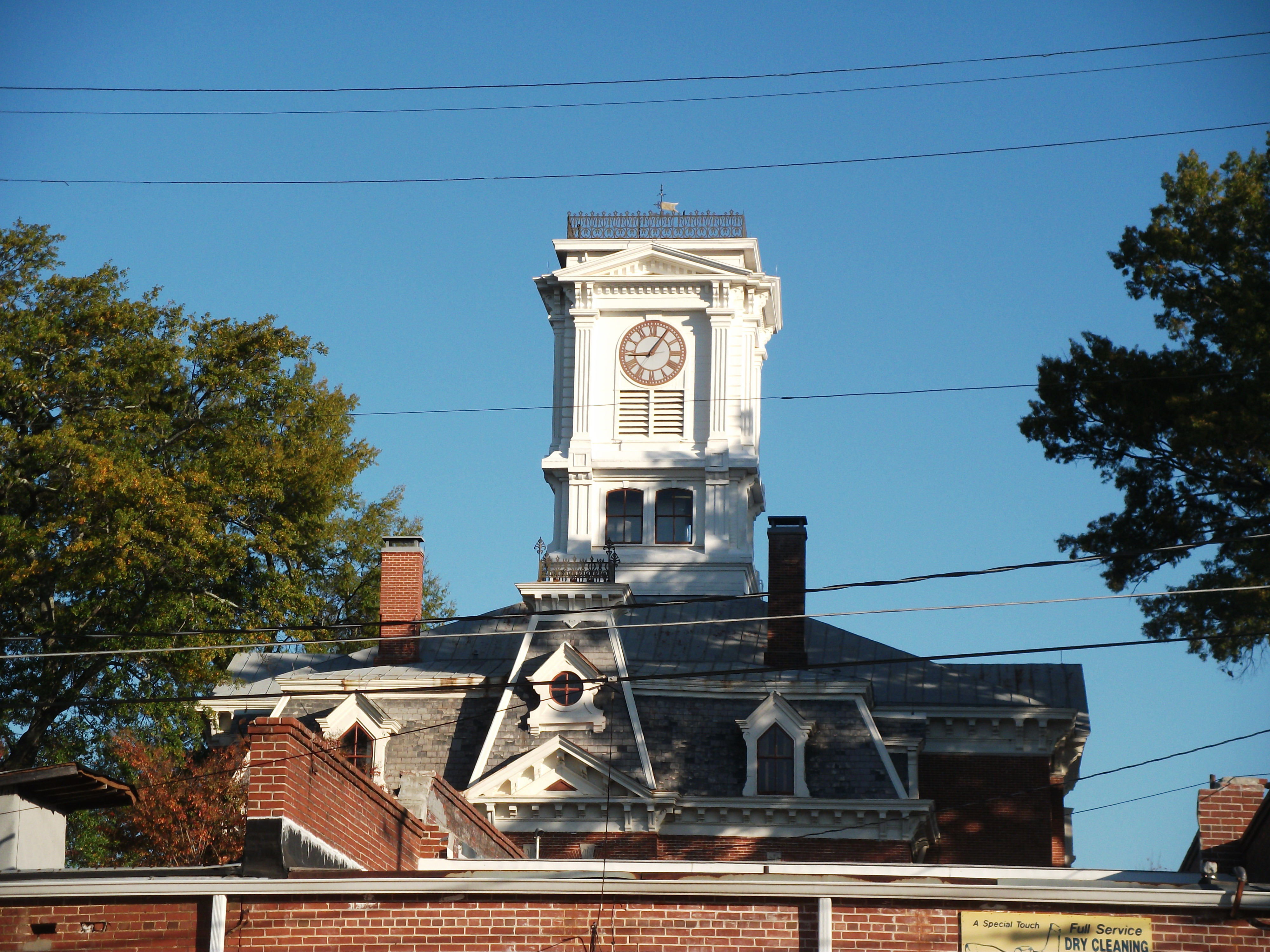 Walton County, Georgia historic courthouse building.